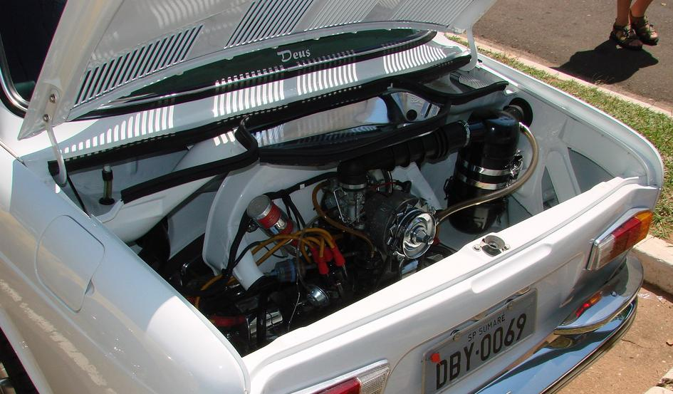 A brazilian VW 1600 engine